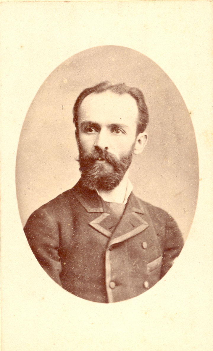 Dr. Emilio Álvarez Lalinde (1847 – 1906) was a Colombian physician graduated of the University of El Salvador.